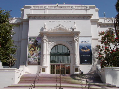 San Diego Natural History Museum; El Prado facade of 1933 building by William Templeton Johnson.